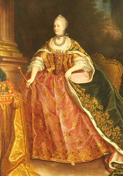 Maria Teresa, Holy Roman Empress and Queen of Hungary and Bohemia, founder and first Grand Master of the Royal Hungarian Order of Saint Stephen, wearing the robes of the Order